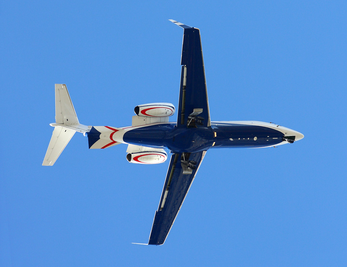 Planform view of a Flexjet airline Bombardier Learjet 40